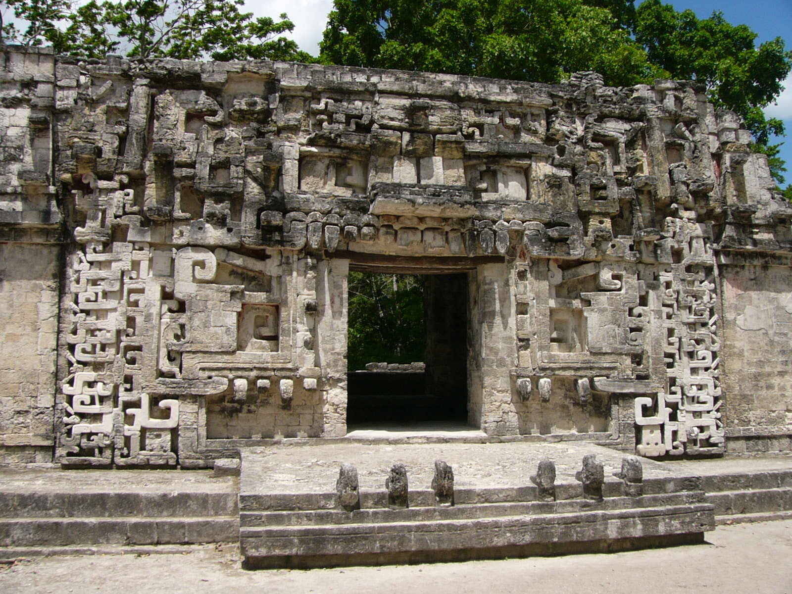 Maya site of Chicanna